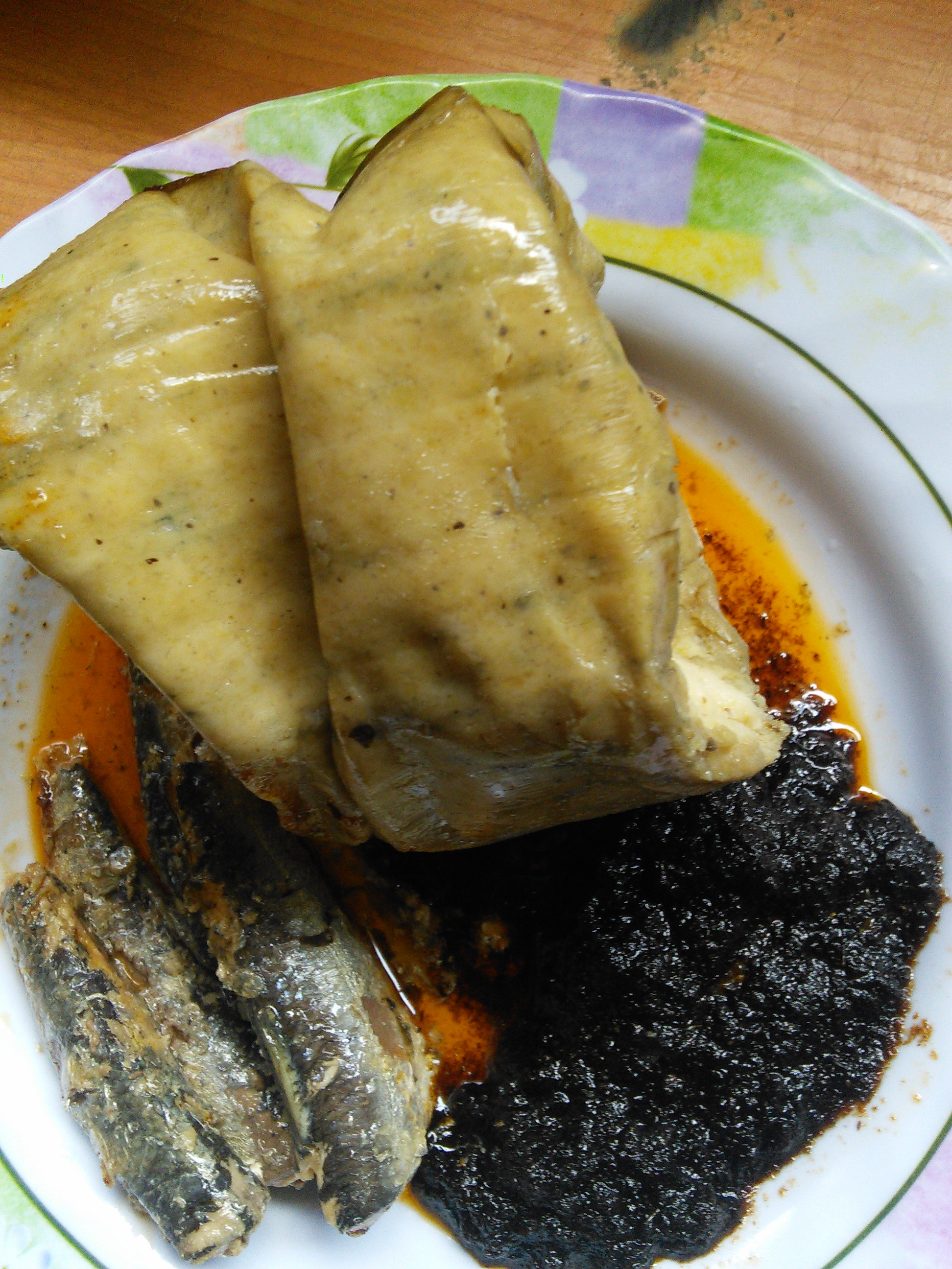 This is an image of food from Ghana